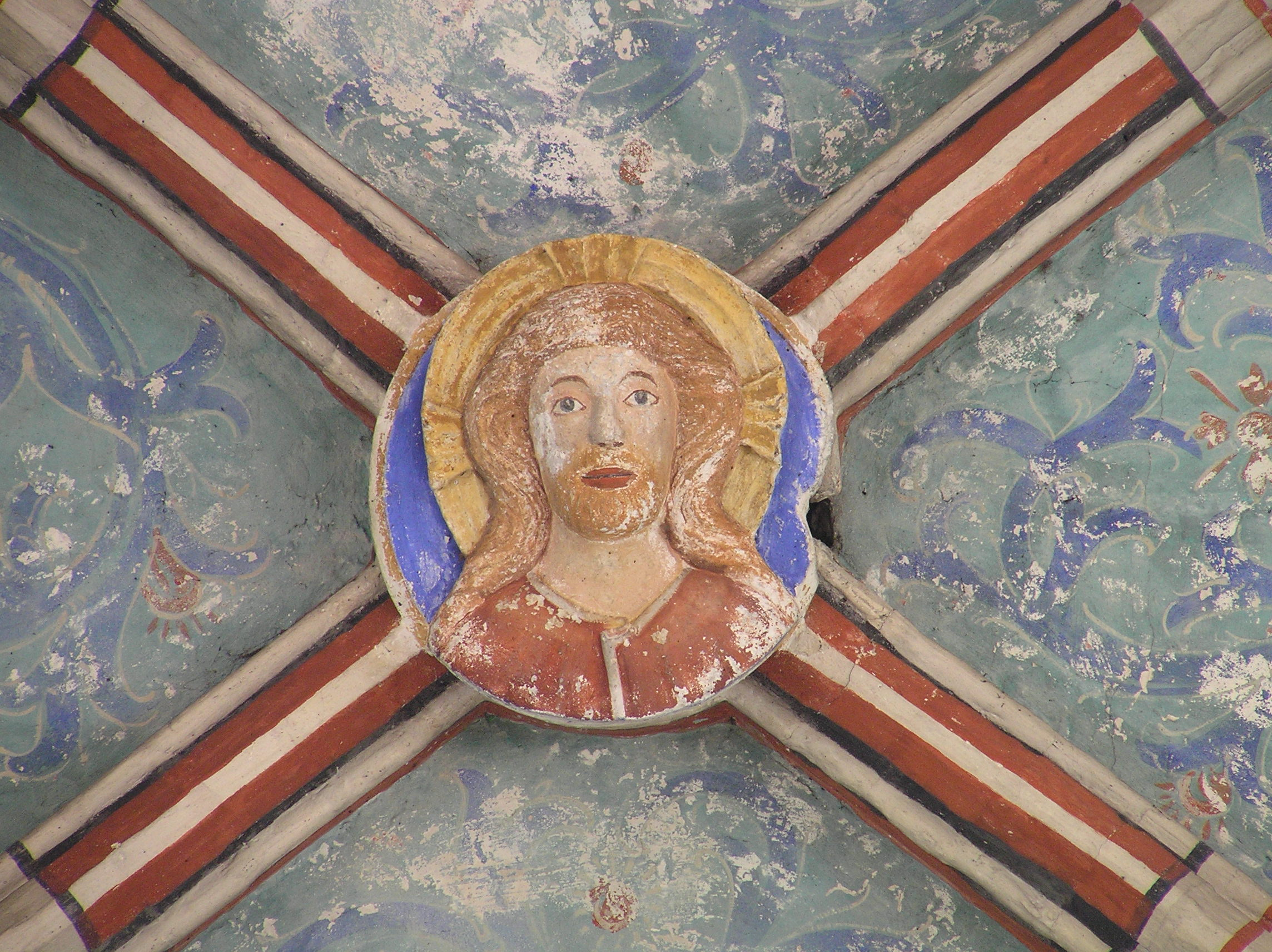 Chełmno, church of SS. James and Nicholas, until 1806 Franciscans', keystone in the presbytery with the bust of Christ, after 1326